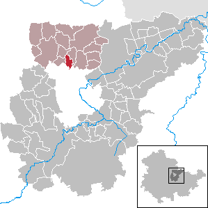 Kleinobringen in Thuringia - District Weimarer Land